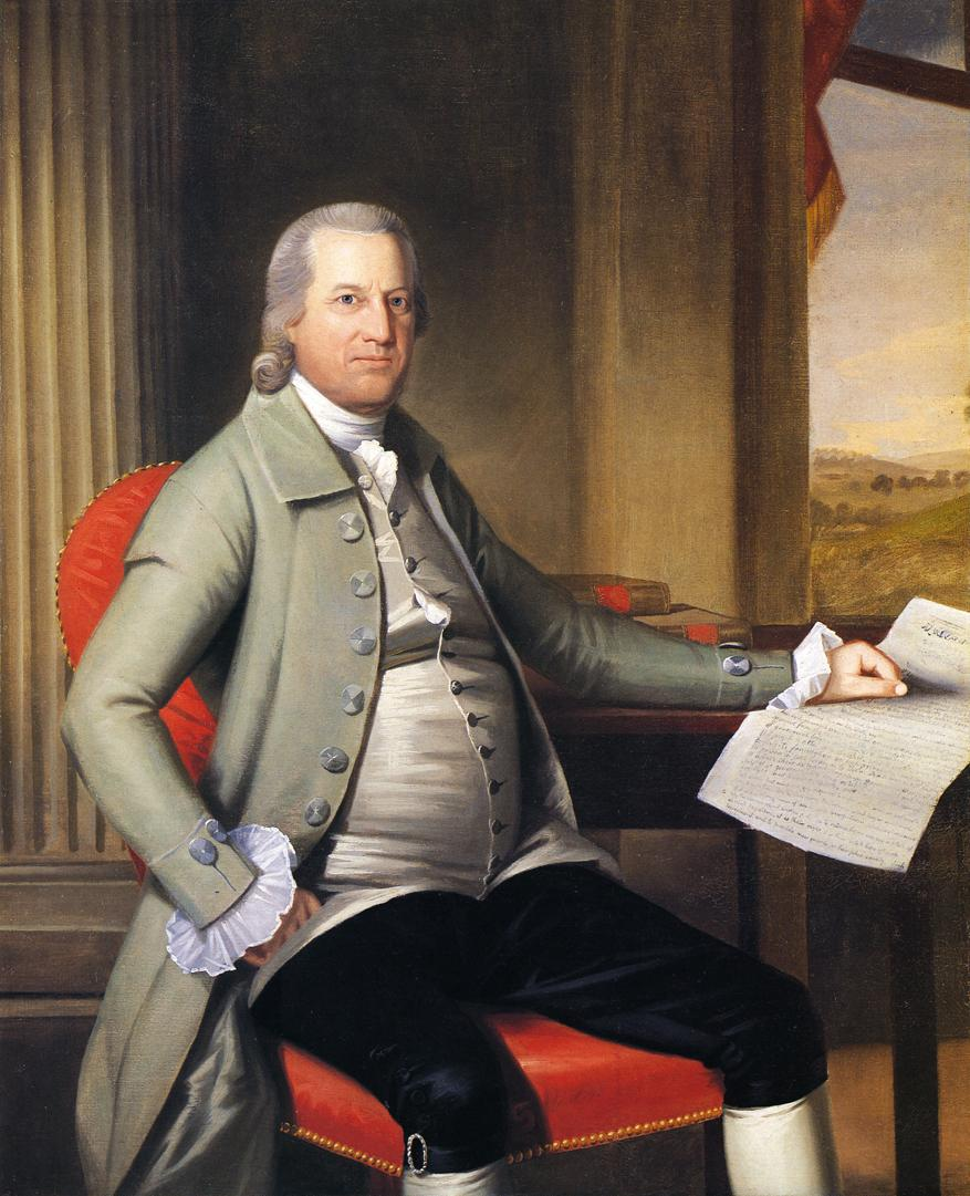 Portrait of Connecticut Founding Father Oliver Wolcott by the American painter Ralph Earl, oil on canvas. Courtesy of the Museum of Connecticut History.